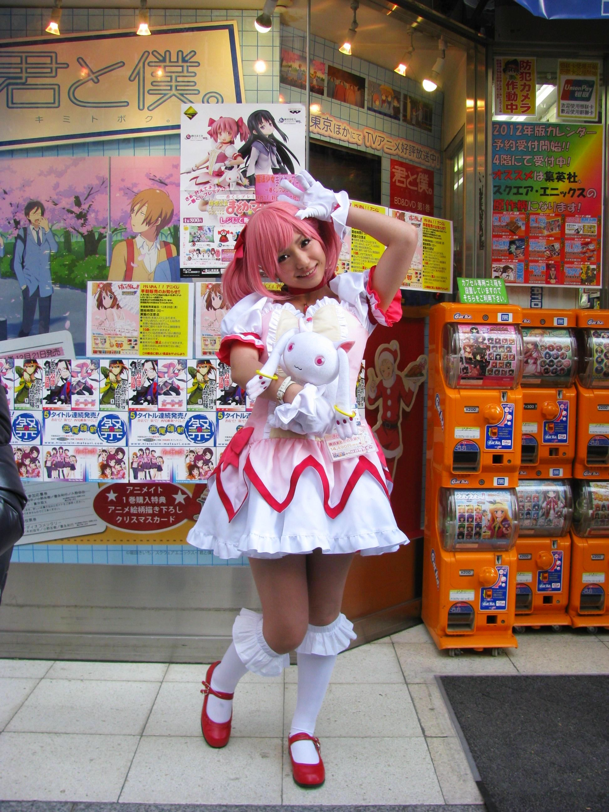 Cosplayer of Madoka Kaname, the anime Puella Magi Madoka Magica.